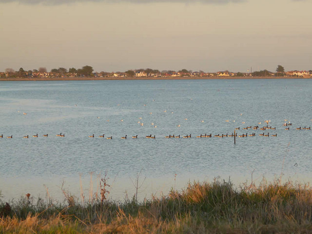 Geese on the mudflats in Dollymount Picture was taken from the causeway and shows pale-bellied Brent Geese settling down for the evening on the tidal mudflats in Dollymount.